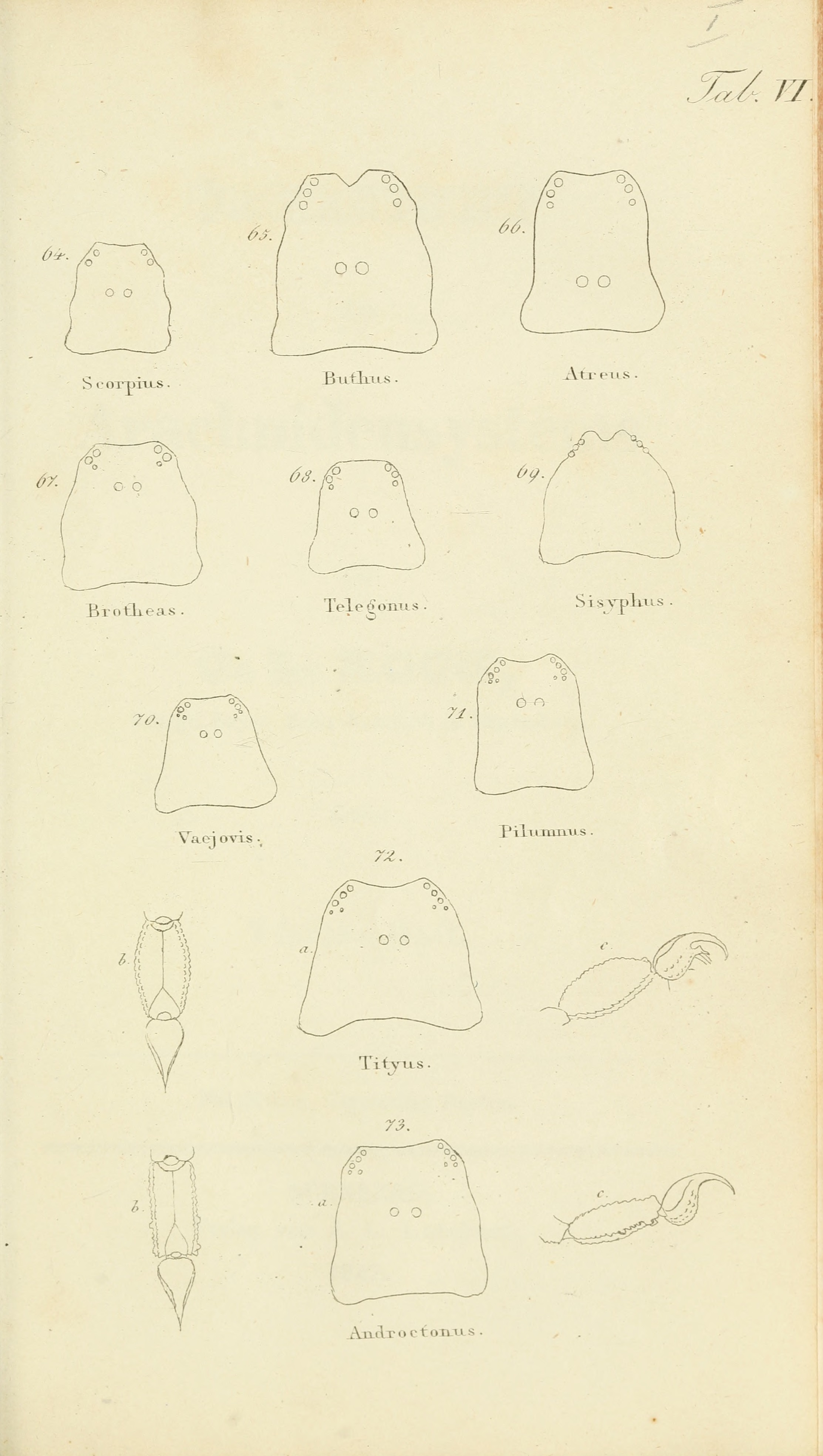 Plate VI of Carl Ludwig Koch: Übersicht des Arachnidensystems. Nuremberg: C. H. Zeh 1837, with wrong title of figure 66 (Atreus instead of Opistophthalmus)